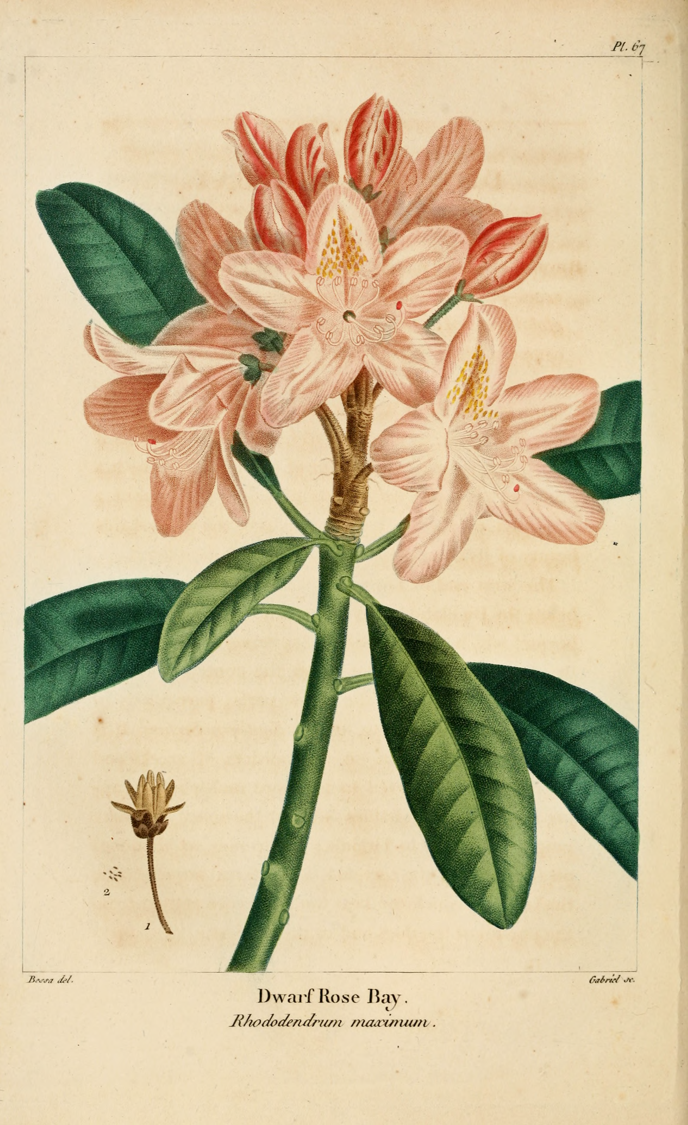 Plate 67 from The North American Sylva: Rhododendron maximum - great laurel. (Original caption: "Dwarf Rose Bay. Rhododendron maximum.")